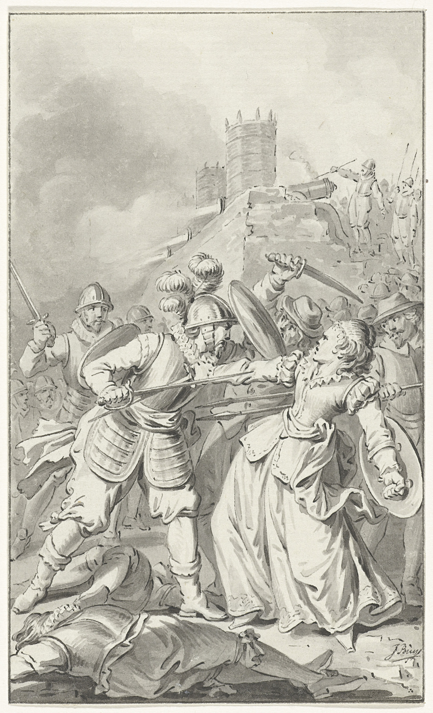 The princes, Marie-Christine de Lalaing being hurt during the Siege the city of Doornik 1581